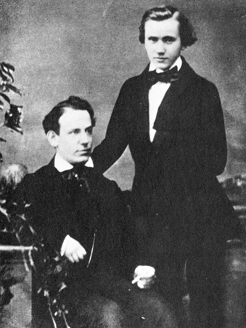 Ede Reményi, Hungarian violinist (1828-1898, left side) and Johannes Brahms (1833-1897), German composer